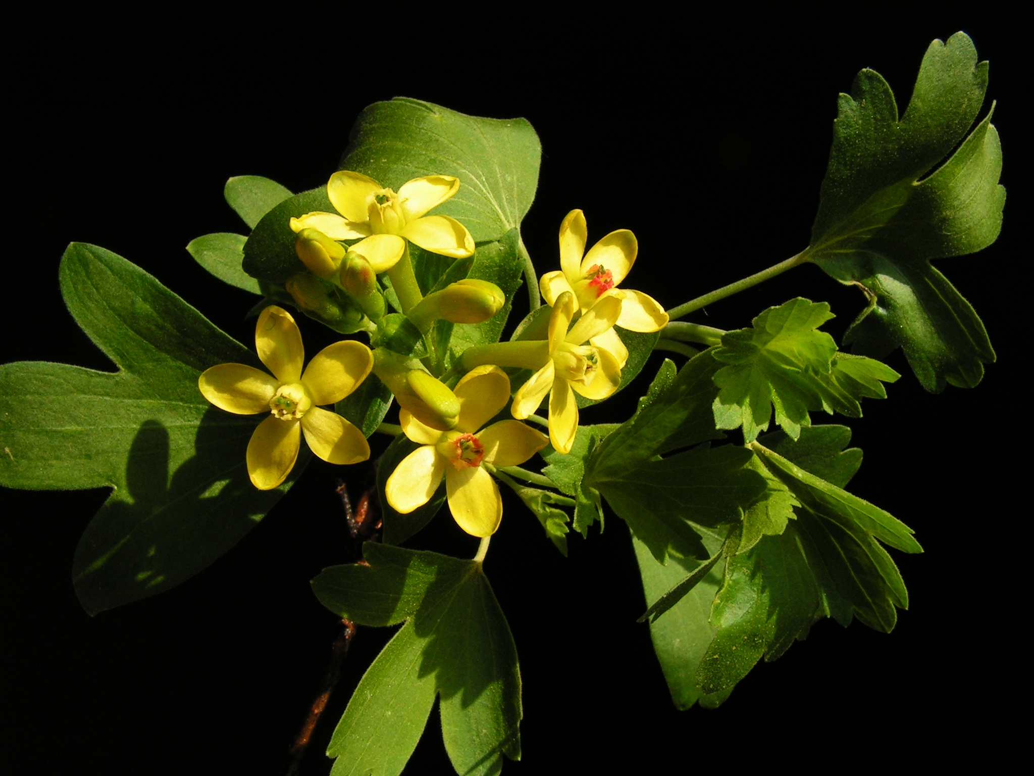 Branch of flowering Golden Currant. Moscow region, Russia.